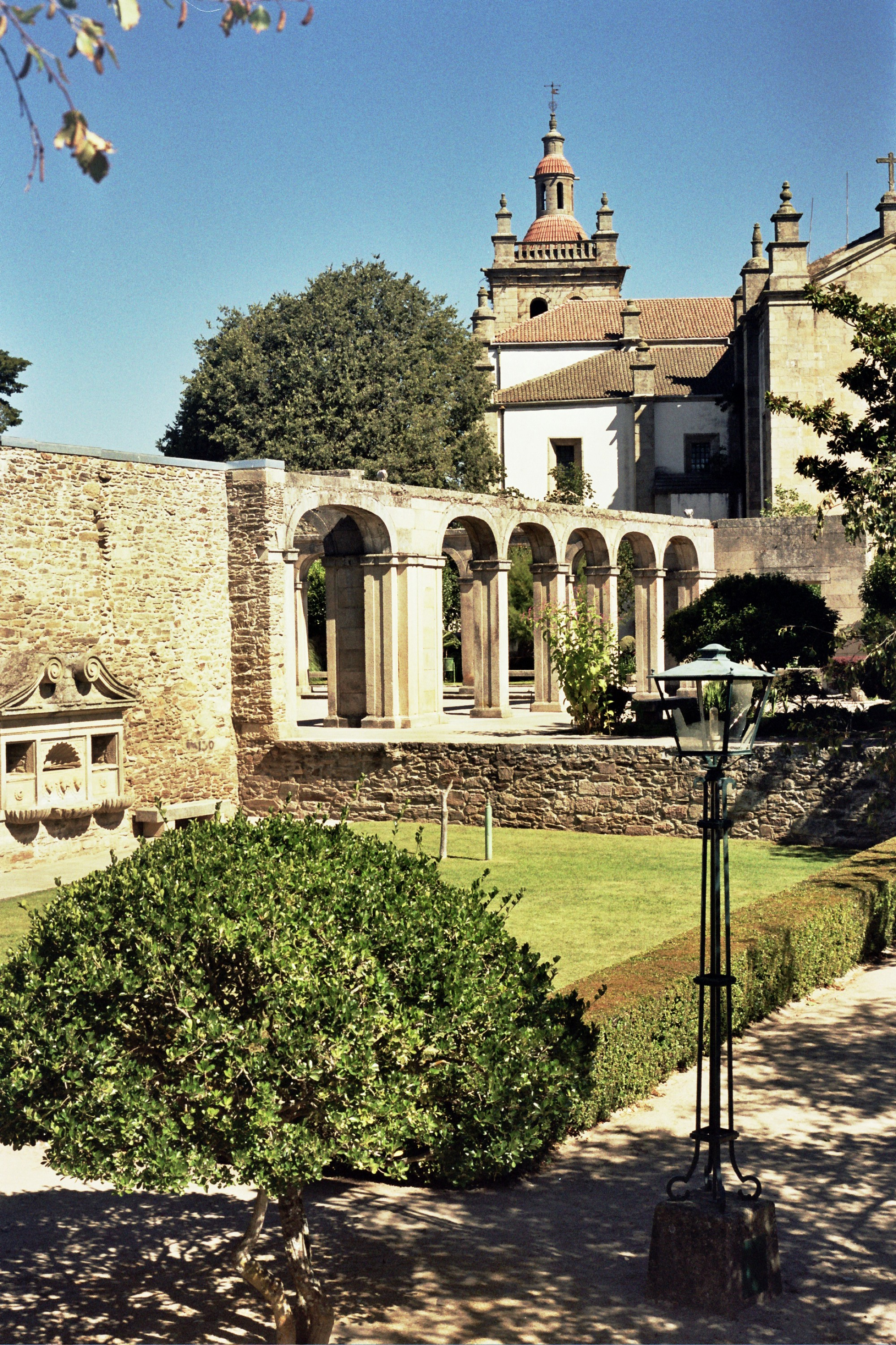 On 10 July 1545, King John III elevated Miranda do Douro to the status of city, at the same time becoming the first diocese in Trás-os-Montes (in a papal bull on 22 May 1545 by Pope Paul III, which segmented a major part of the archdiocese of Braga. Miranda, therefore, became the capital of the Trás-os-Montes, seat of the bishopric (that included the residence of the bishop, canons and ecclesiastical authorities), military governorship and civil centre.